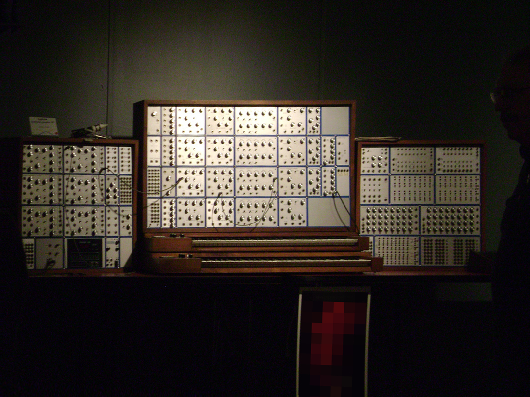 E-mu Modular System (mid 1970s) This modular synthesizer is one of world first modern polyphonic synthesizer (after historical Warbo Formant Organ (1937) and Hammond Novachord (1939-1942)). In 1973, E-mu Systems independently developed polyphonic synthesizer technology (i.e. note assignment using microprocessor), and it was applied on their E-mu Modular System. In afterwards, this technology was also licensed to other manufacturers, and the results are well known Oberheim 2/4/8-voices (1975,1977), and Sequential Circuits Prophet-5 (1977). [1] Cantos Keyboard and synthesizer museum. Calgary AB. February 2010. References Formula Filter Array 24. MATRIXSYNTH (2007-07-16). "Brandon7/16/07, 2:25 PM - That thing looks hot! We have Patrick Gleeson's old E-mu modular here in Calgary AB which is undergoing an overhaul by our technitian right now." See also category: Formula Sound Multiple Resonance Filter Array 24.